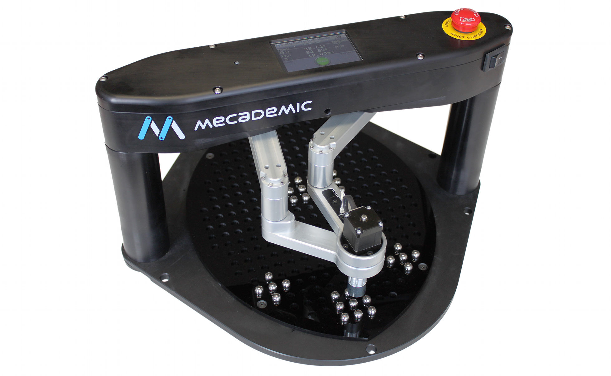 DexTAR is an affordable educational parallel robot for pick and place.